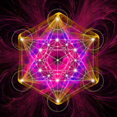 Sacred geometry fractal Metatron's Cube